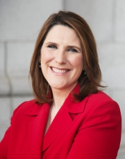 Charmaine Yoest with the Department of Health and Human Services.